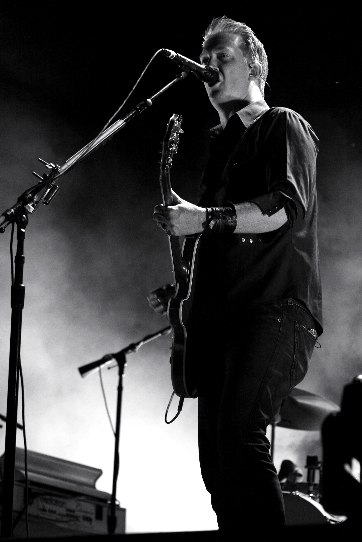 Josh Homme, singer of Queens of the Stone Age, on the Alternastage of Rock im Park Festival 2014. Festivalsommer This photo was created with the support of donations to Wikimedia Deutschland in the context of the CPB project "Festival Summer".